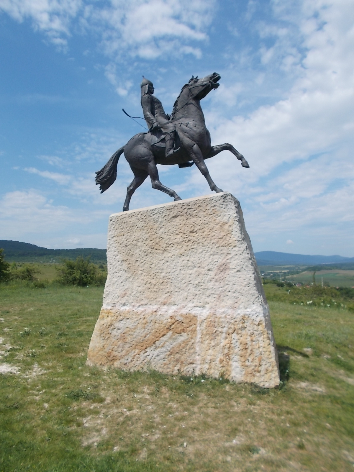 Árpád statue by Dávid Tóth (from east) in Pomáz, Pest County, Hungary.